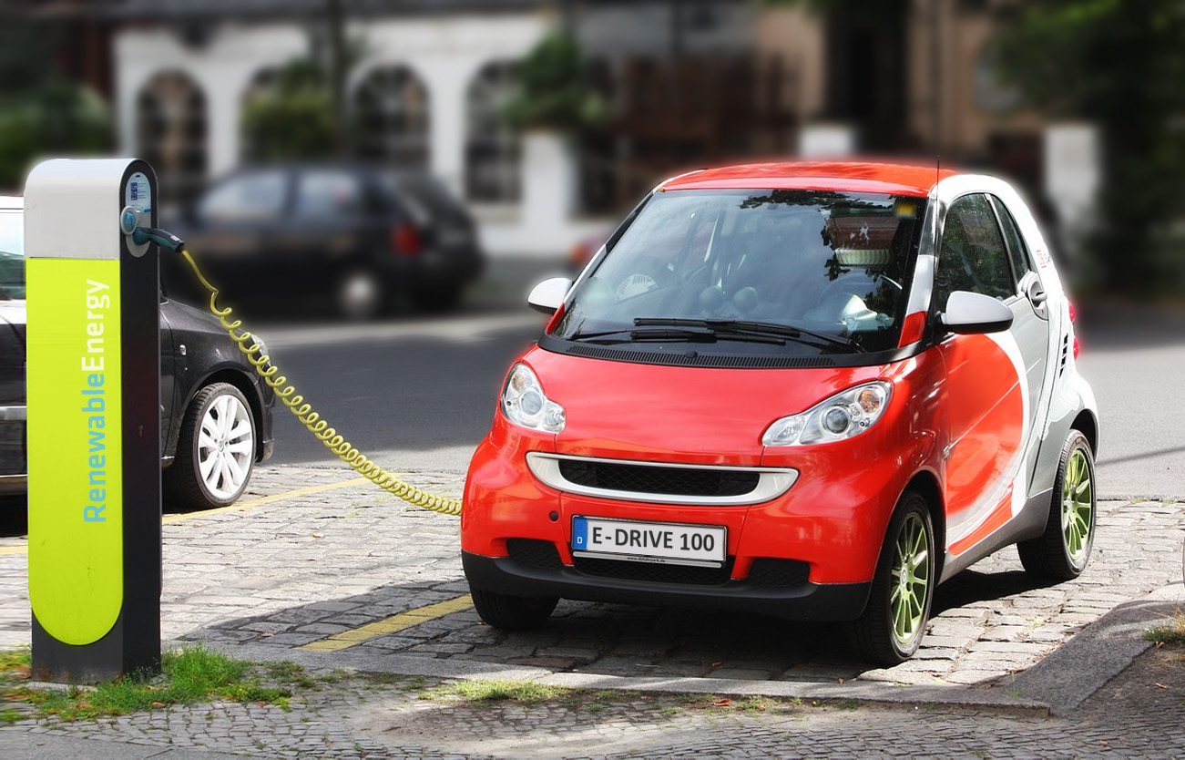 electric car recharging in Berlin, Germany – dummy/fake registration plate and charging station logo